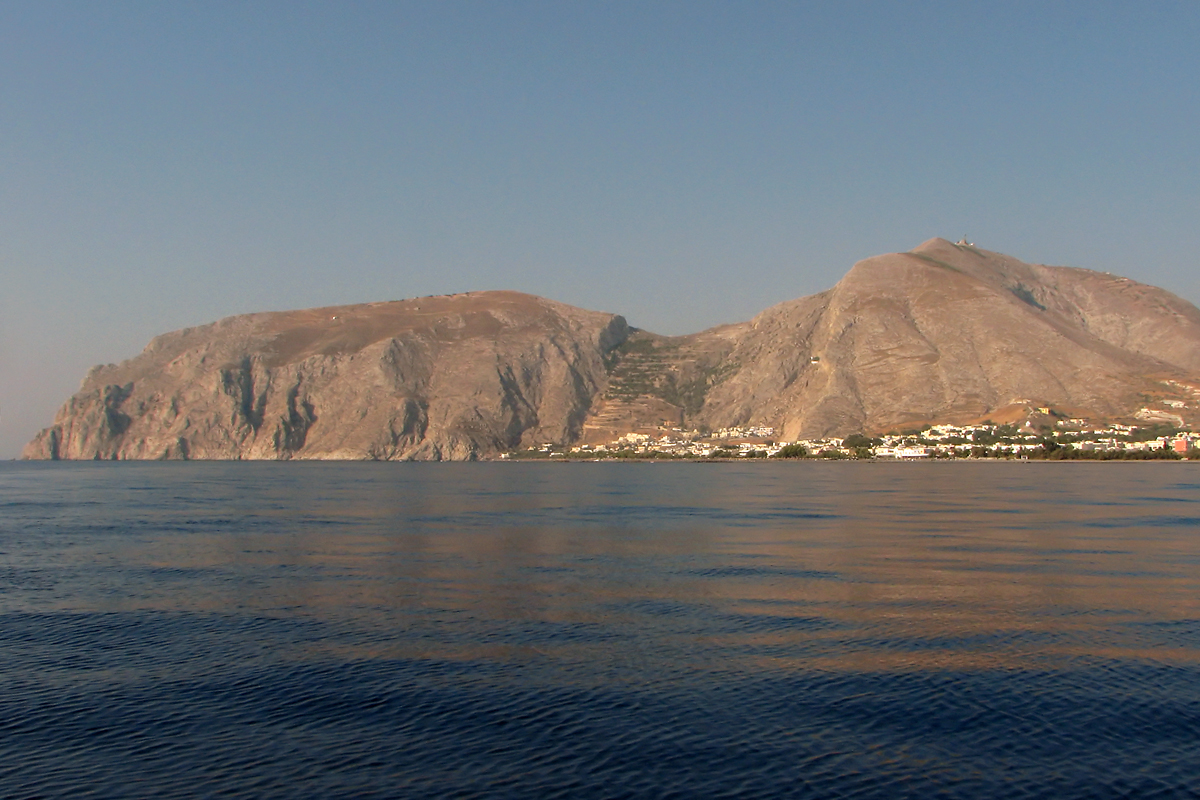 Sea view of Kamari in Santorini, Greece.